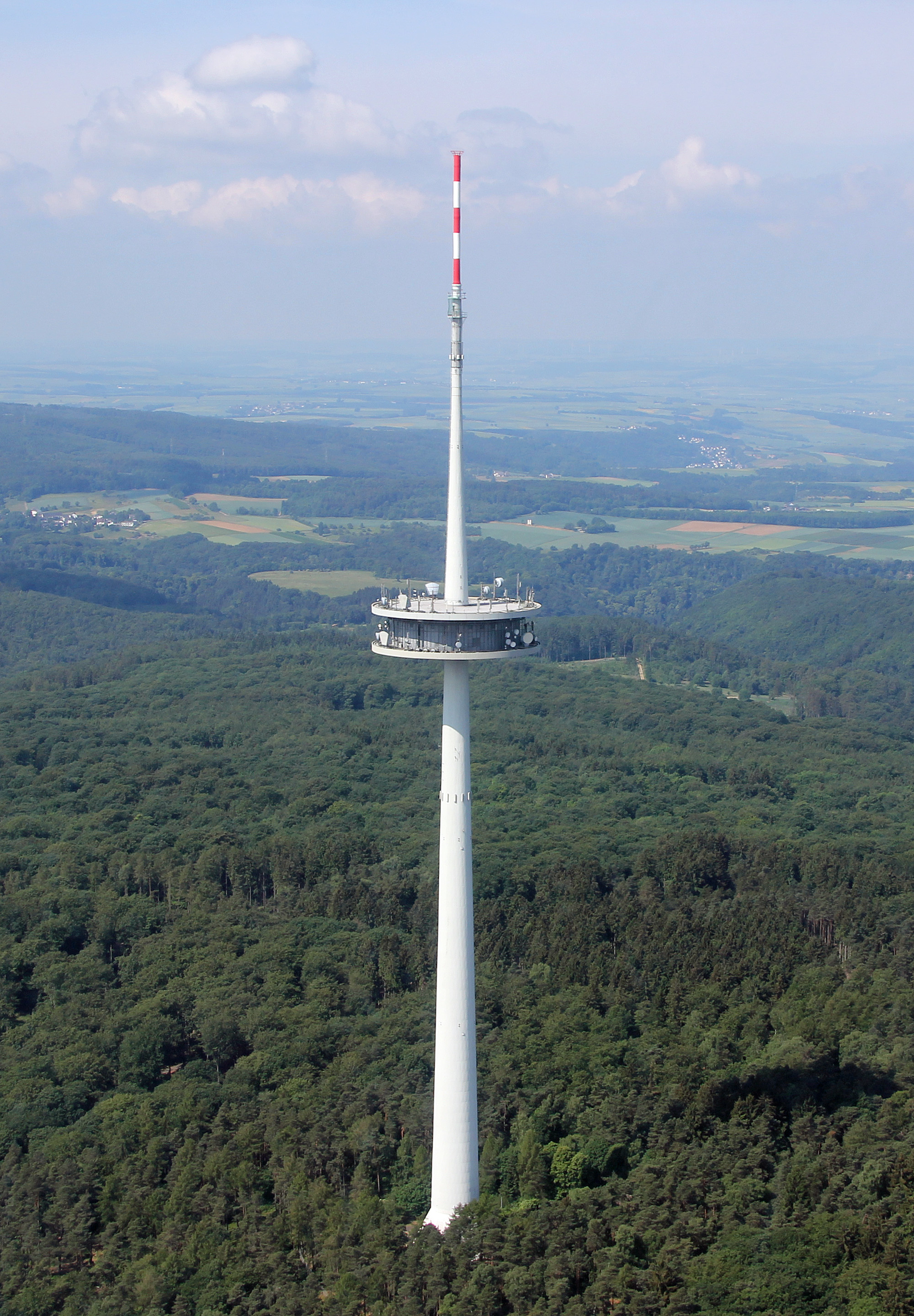 Aerial view of Fernmeldeturm Koblenz in Koblenz